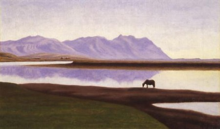 Hvítá í Borgarfirði (Hvítá in Borgarfjörður) by Þórarinn B. Þorláksson (1867-1924). Made in 1903. Source and copyright Obtained from listasafn.is, the website of the National Gallery of Iceland. Link: Note that even photographs which are not artworks have a copyright protection of 50 years from creation in Iceland. Thus it is not clear that this image is in the public domain in Iceland.